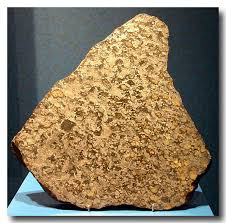 Image of one of the fragments of the Bencubbin Meteor, housed at the Smithsonian Institute